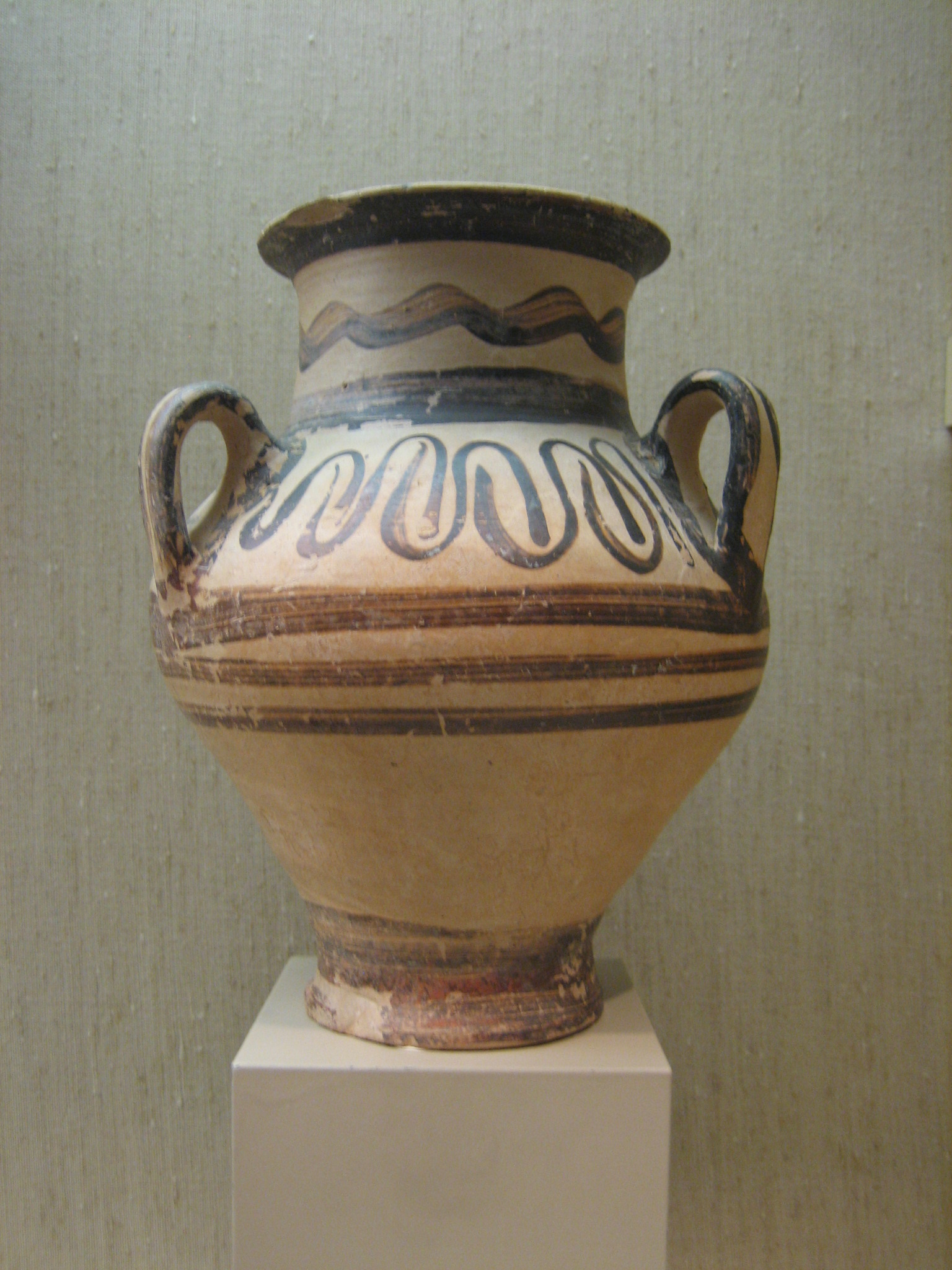 Minoan clay vase